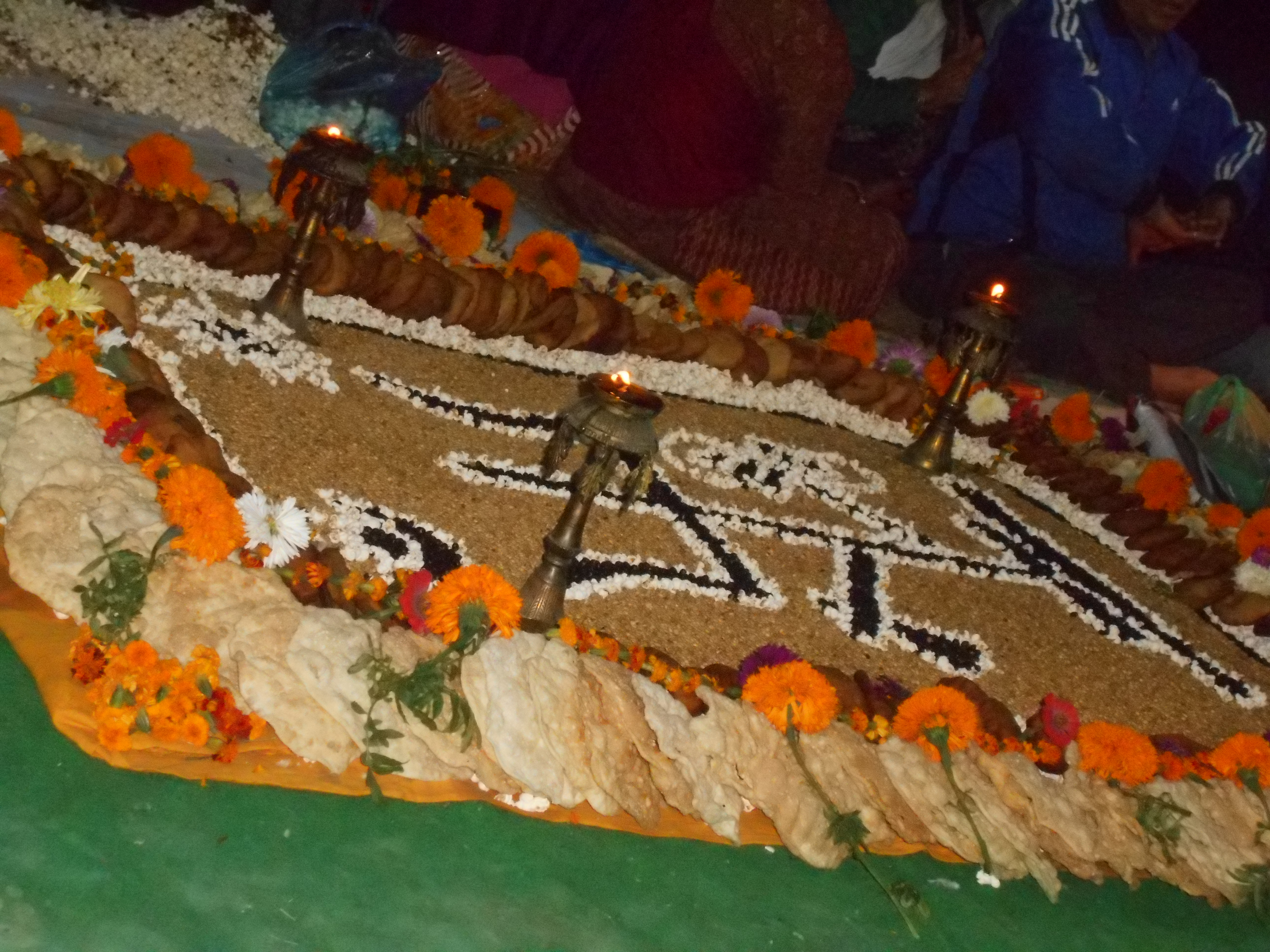 Local celebration during the Newar festival Sakimana Punhi